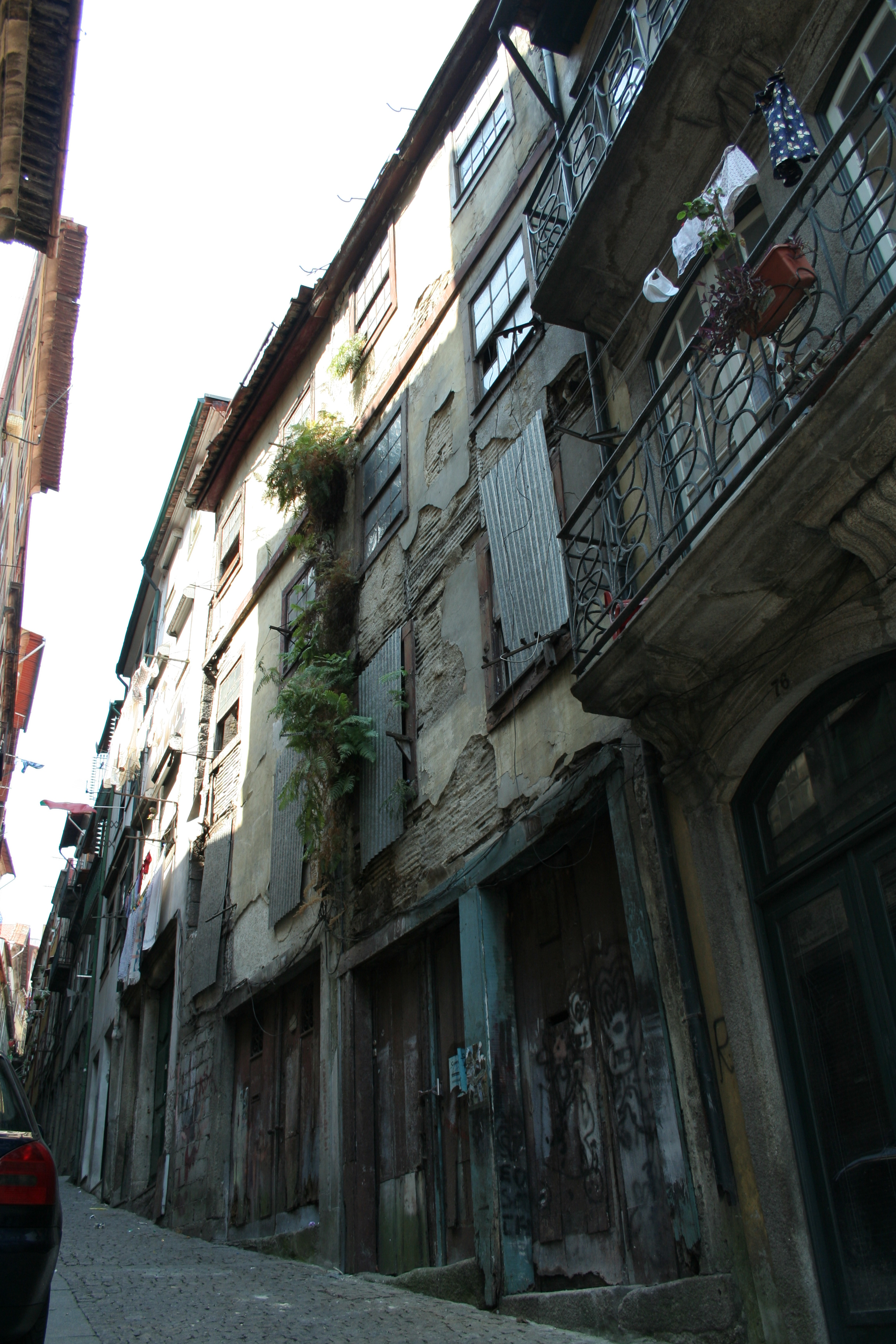 Houses in Porto